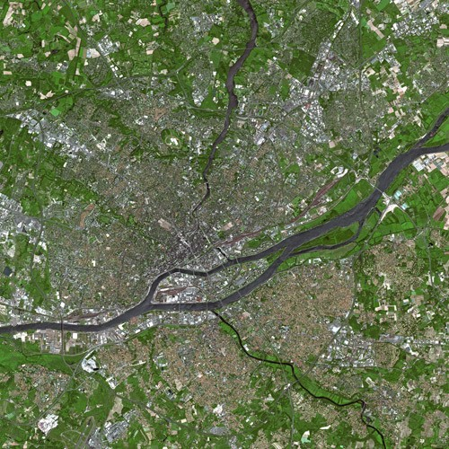 Nantes by SPOT Satellite